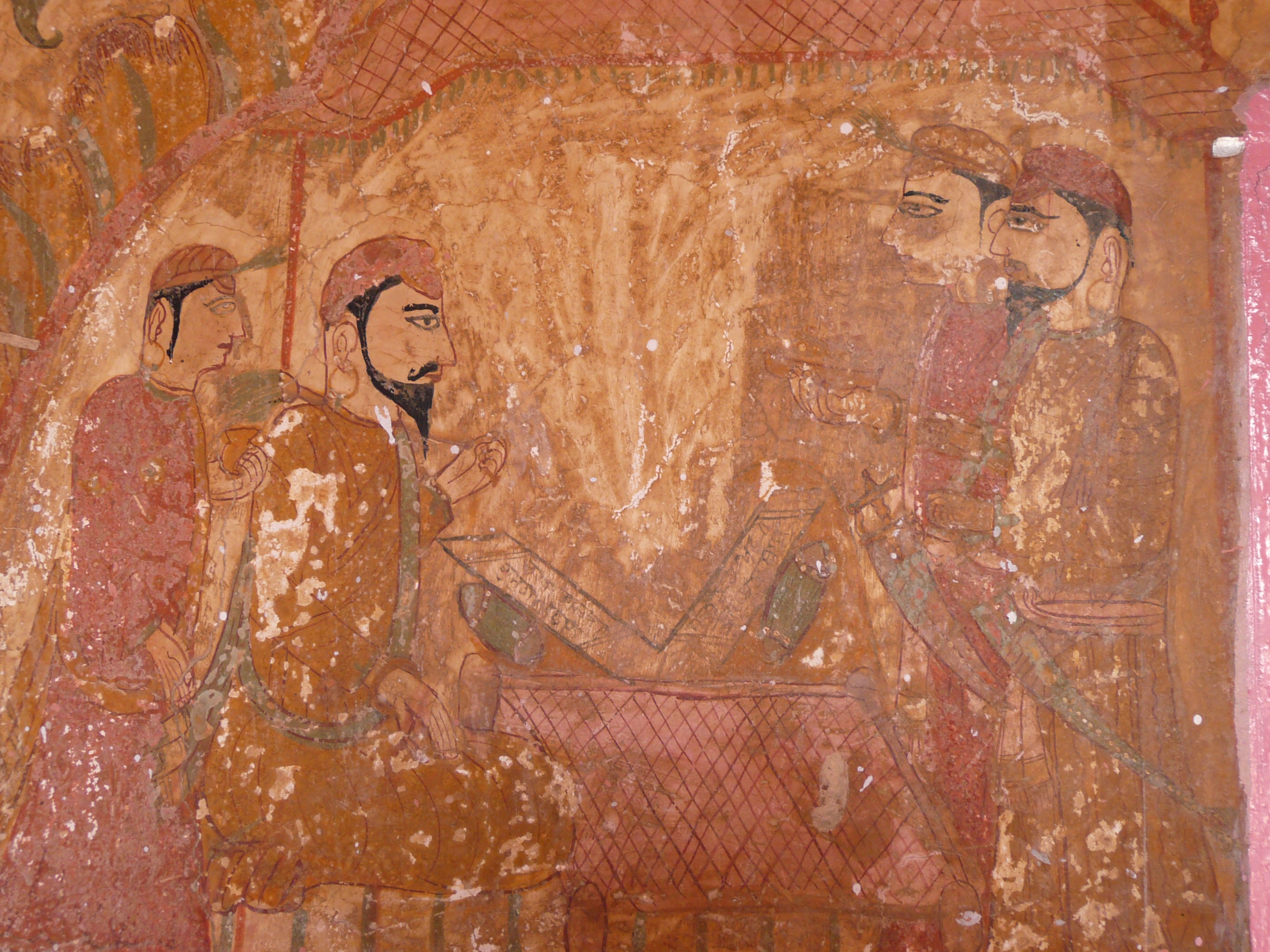 Very Ancient Painting from Mugal Times on Shiva Temple roof, People tried to repair the Temple roofs, but these Priceless paintings are not been saved. just few of them left now